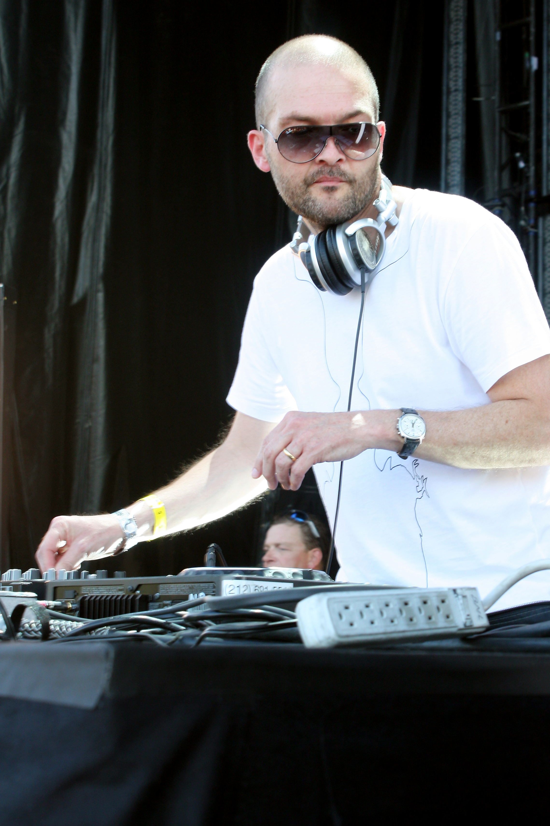 Ben Watt (formerly of Everything but the Girl and Lazy Dog) DJ'ing at the Electric Zoo festival in NYC in September 2009.